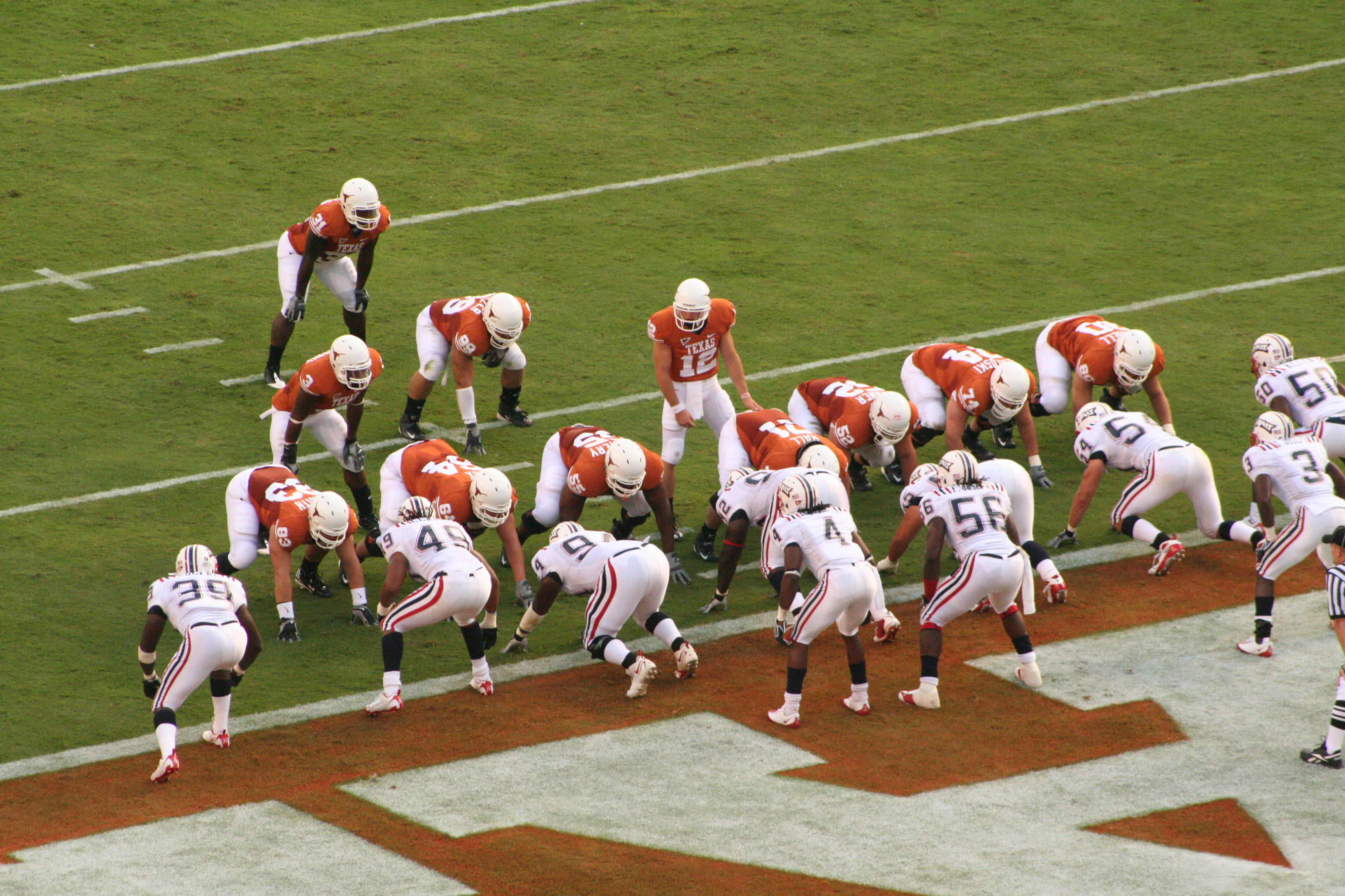 2008 Game 1 - Texas Longhorns football team - On offense against FAU. 2008 Longhorns on offense against Florida Atlantic University, 2008-08-30